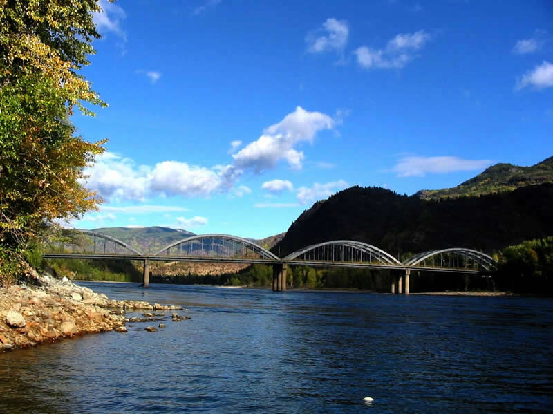 View of the Trail Bridge and the Columbia River in Trail BC Canada. Photo by Brian Findlow uploaded with permission.